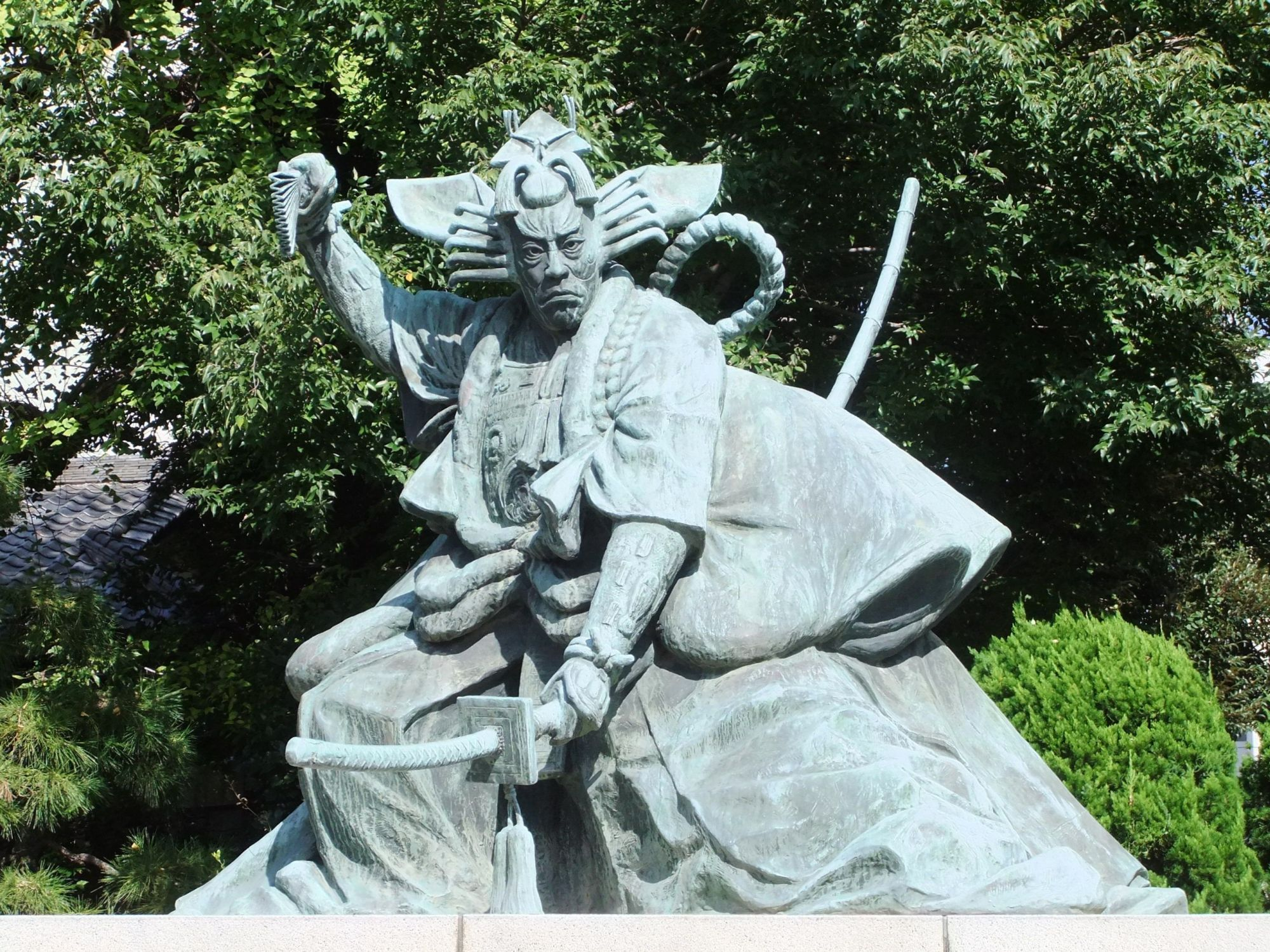 Statue of Danjūrō Ichikawa IX (1838-1903) as Kamakura Gongorō in the kabuki play Shibaraku, Sensō-ji, Tokyo.